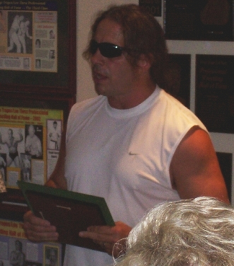 Bret Hart; This photo was taken at the International Professional Wrestling Institute and Museum on July 15th, 2006 by Caleson. It can also be found at